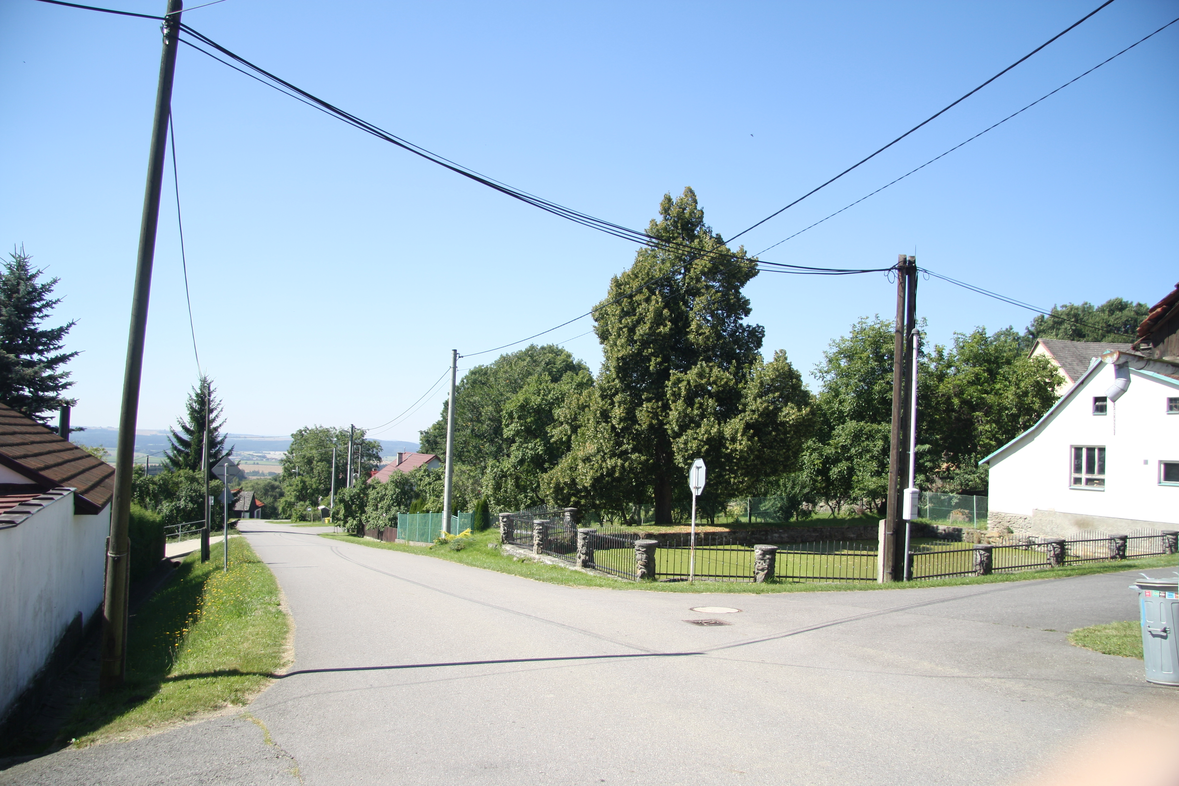 Center of Kyjov, Žďár nad Sázavou District.